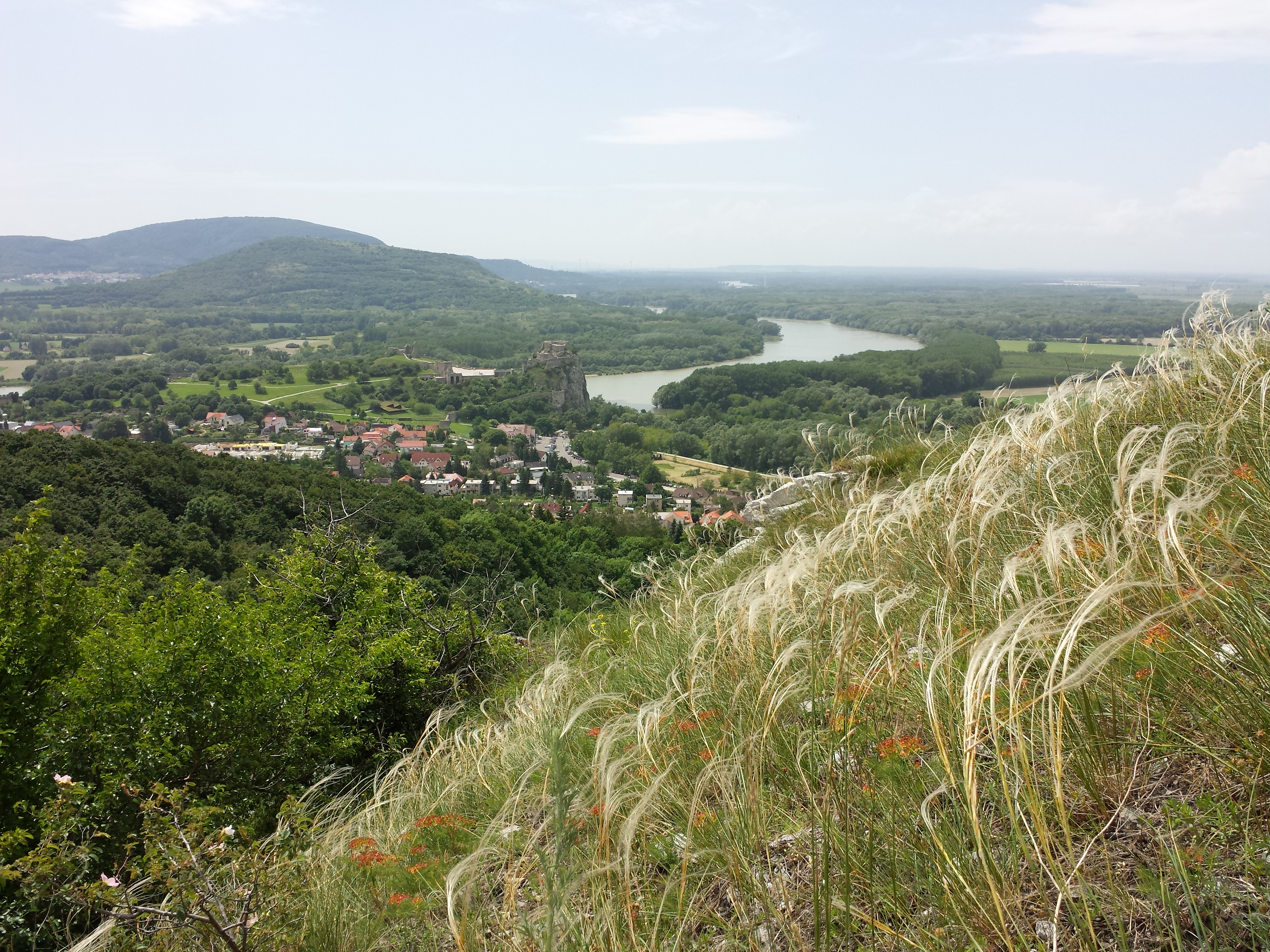 Devínska Kobyla, Bratislava, Slovakia Steppe withStipa pennata agg. View towards Devín castle / Hundsheimer mountains